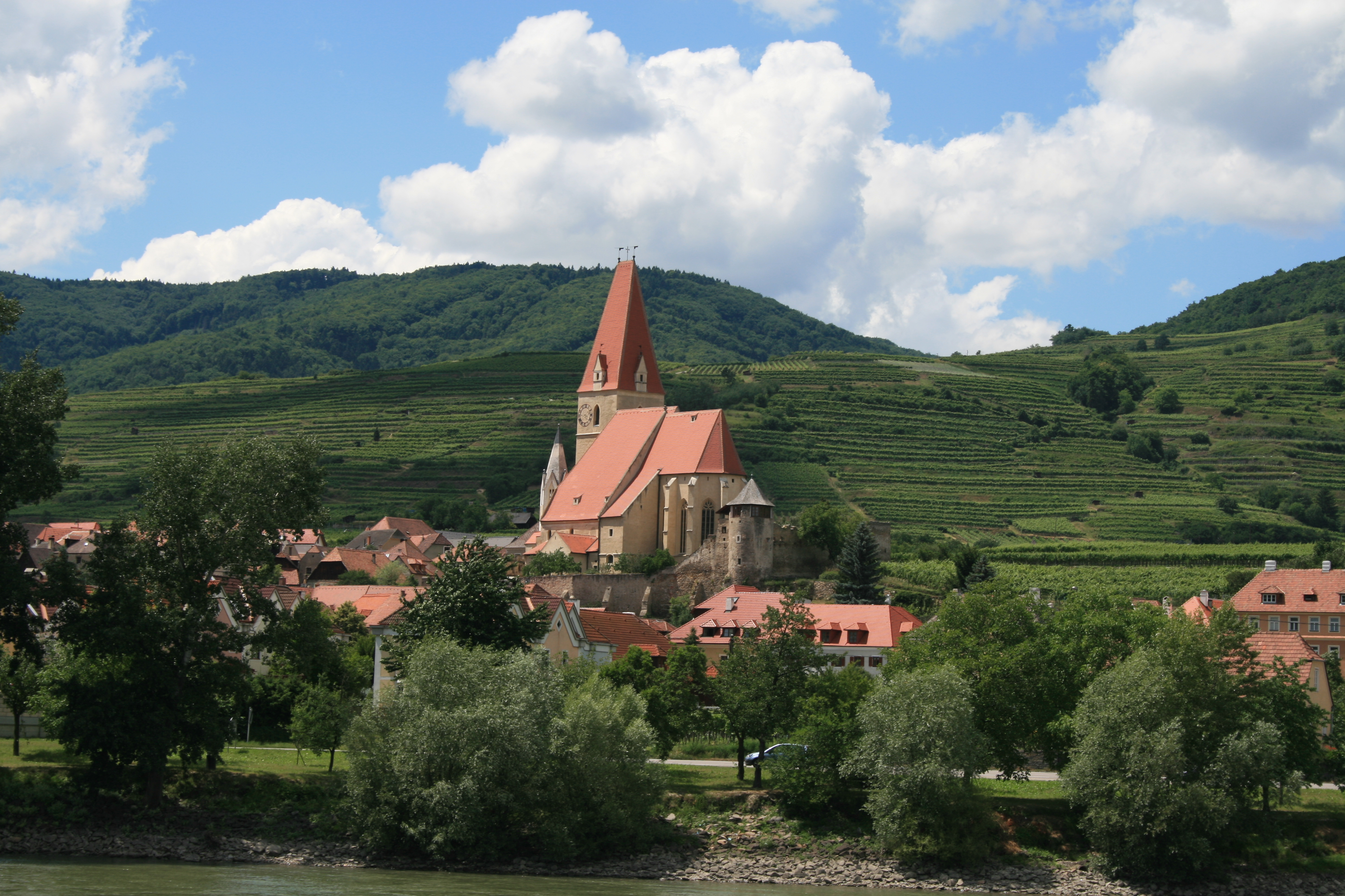 Terraced vineyards and a village situated along the banks of the Danube river in the Austrian wine region of Wachau around Weißenkirchen.